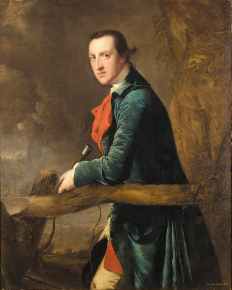 "Portrait of Launcelot Rolleston of Watnall Hall" 1 of 6 portraits of hunting companions who were all Markeaton Hunt members and shown in their livery of blue velvet coat, scarlet waistcoat and yellow breeches. "They were .. linked by education or by marriage." Commissioned by Francis Noel Clarke Mundy of Derbyshire and were all hung together in Markeaton Hall